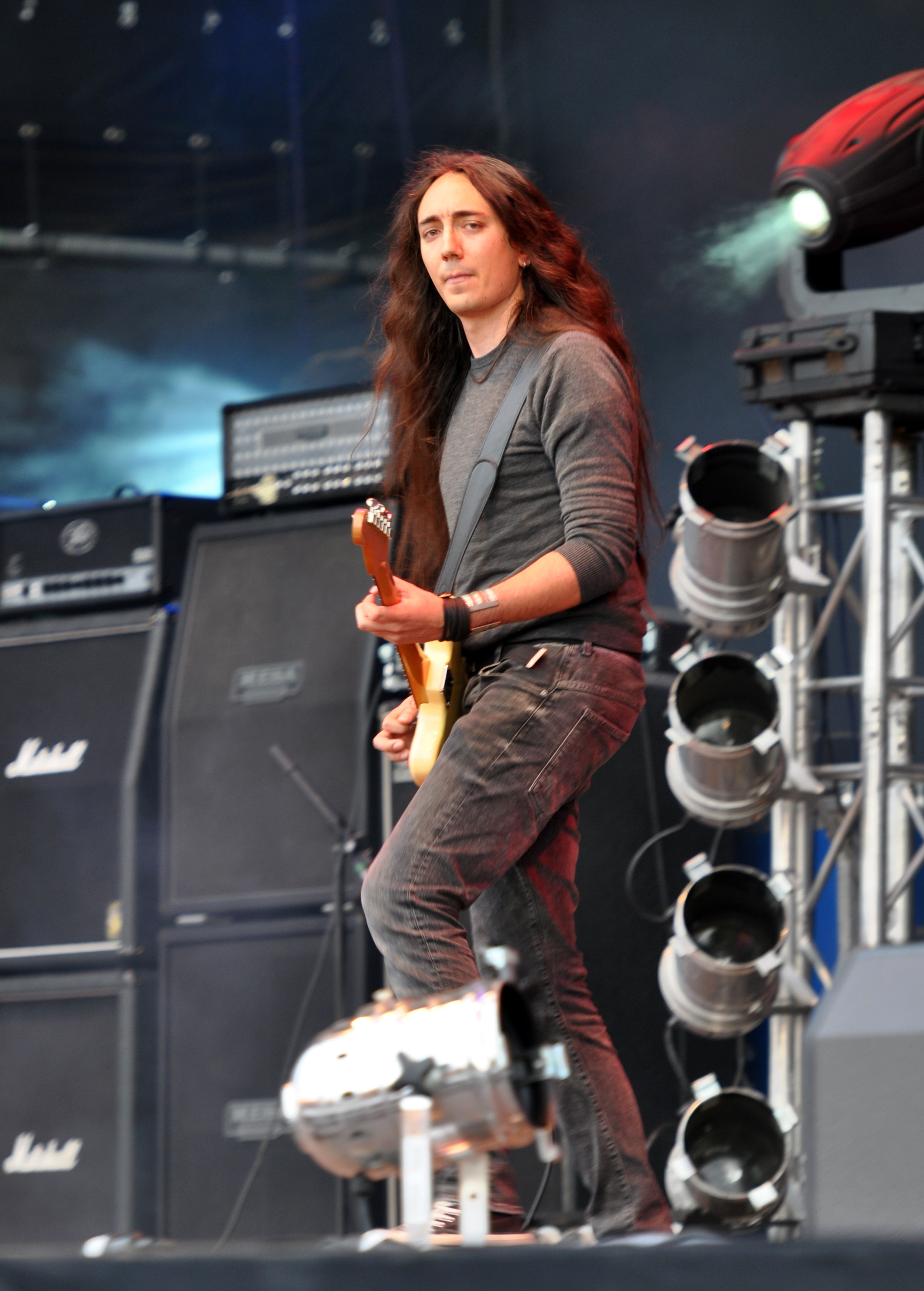 Alcest at Party.San Metal Open Air 2013